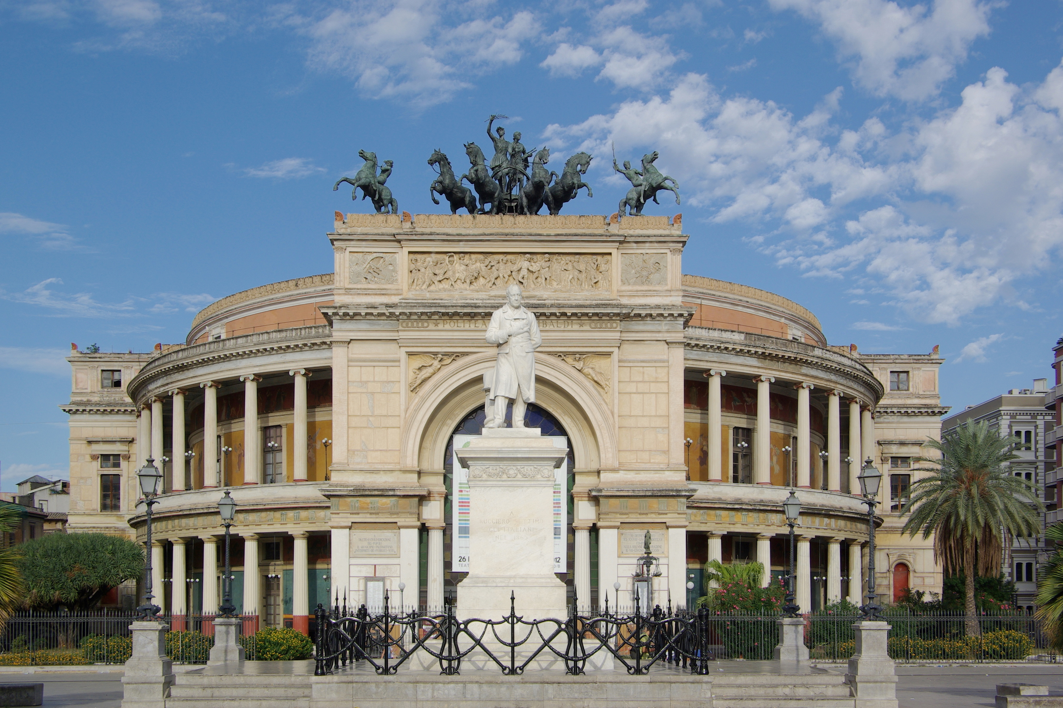 Italy, Sicily, Palermo, Teatro Politeama